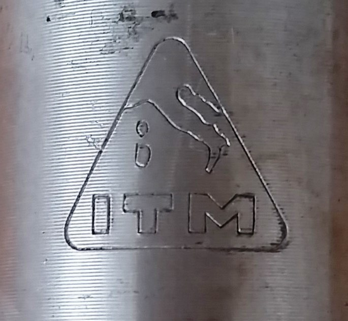 Logo ITM 80s